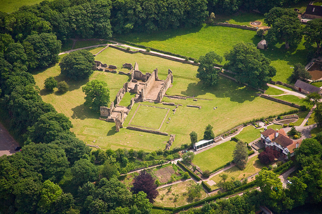 Basingwerk Abbey, Near Holywell, Sir y Fflint / Flintshire, Cymru / Wales. Aerial photo.